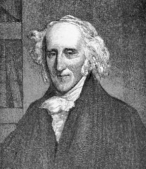 James Freeman (1759-1835)